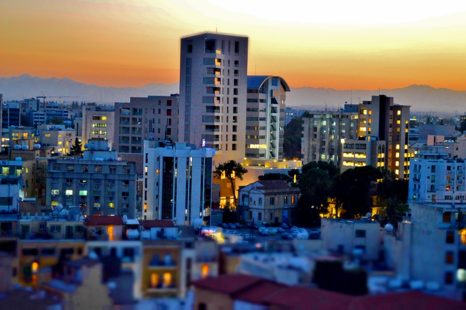 Nicosia Financial quarter just after sunset Nicosia Republic of CyprusTürkçe: Nicosia öğleden sonra Kıbrıs Cumhuriyeti